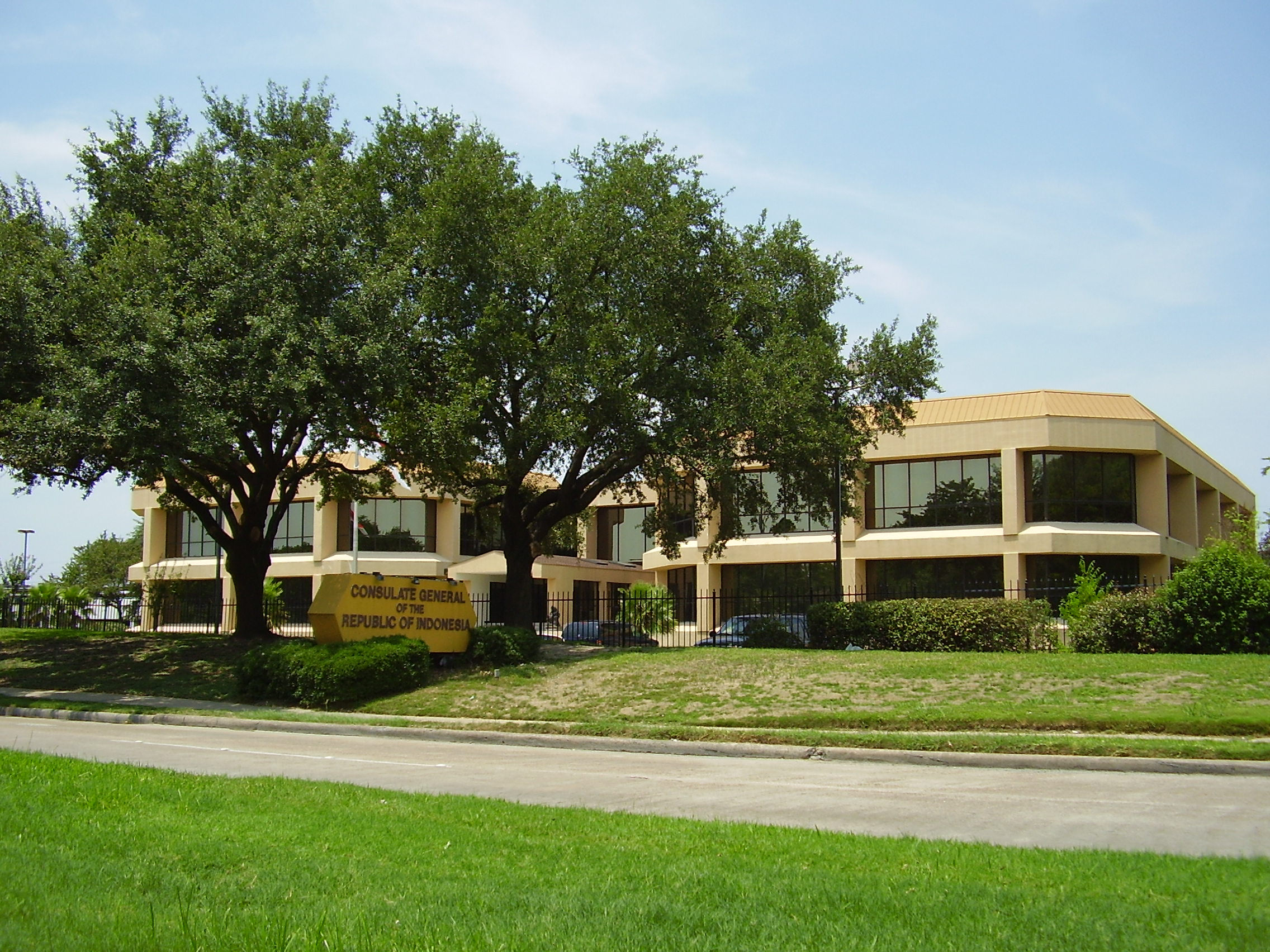 Consulate-General of the Republic of Indonesia in HoustonBahasa Indonesia: Konsulat Jendral Republik Indonesia di Houston